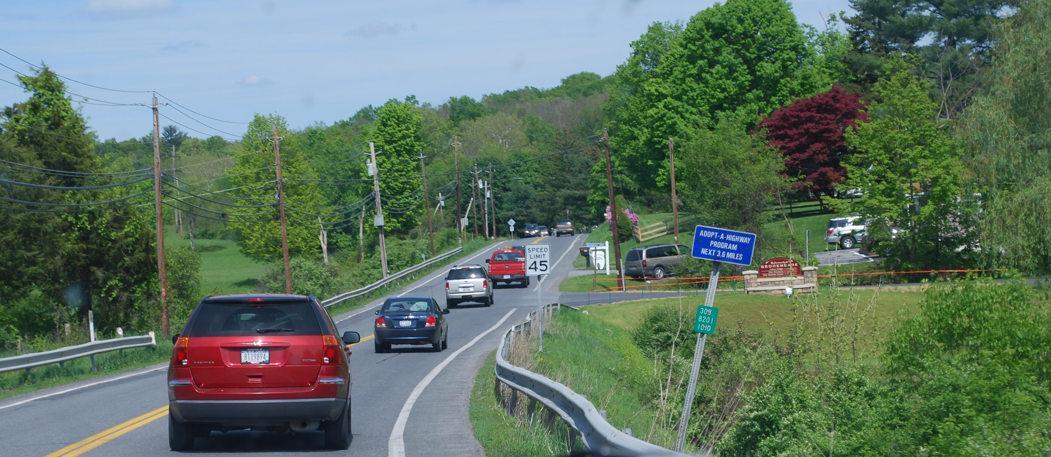 New York State Route 308 outside Rhinebeck, New York